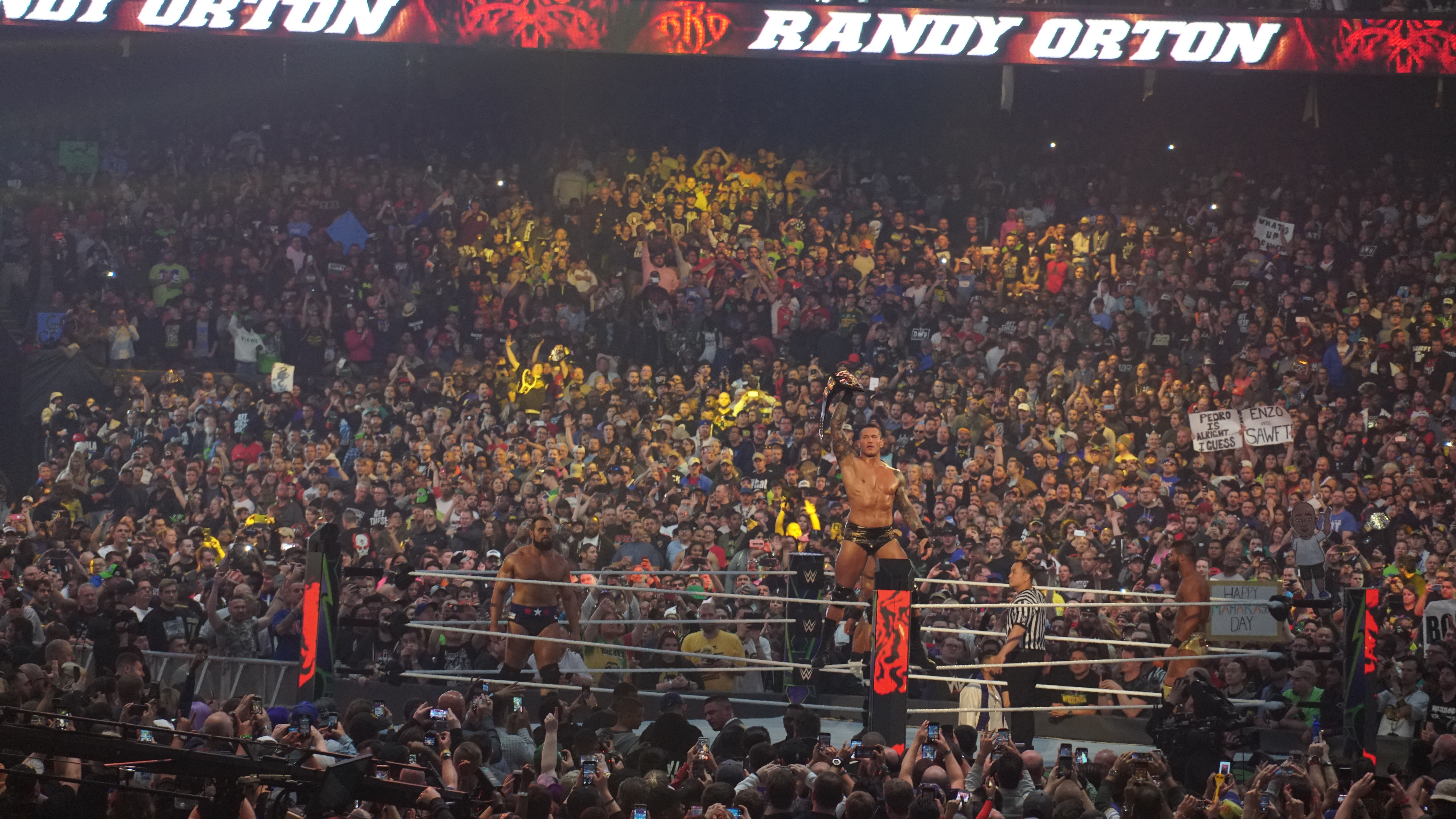 Randy Orton as The WWE United States Champion at WrestleMania 34.